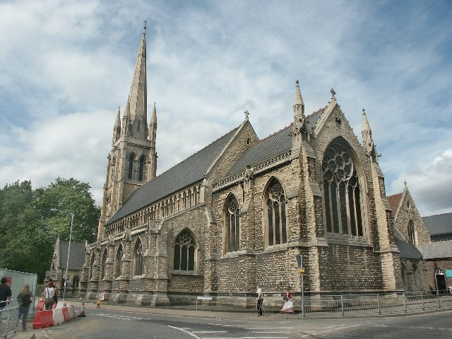 St Swithin, Lincoln. For a short while the land to the south was empty and open and the church could be seen in all its splendour. Now once again another modern building blocks the view.